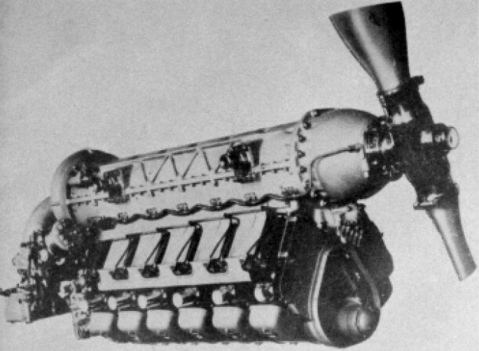 Walter Sagitta aero engine